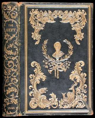 The cover of the literary annual; The Gift, published in Philadelphia in 1840 by Carey and Hart. Included is the first appearance of the short story "William Wilson" by Edgar Allan Poe.